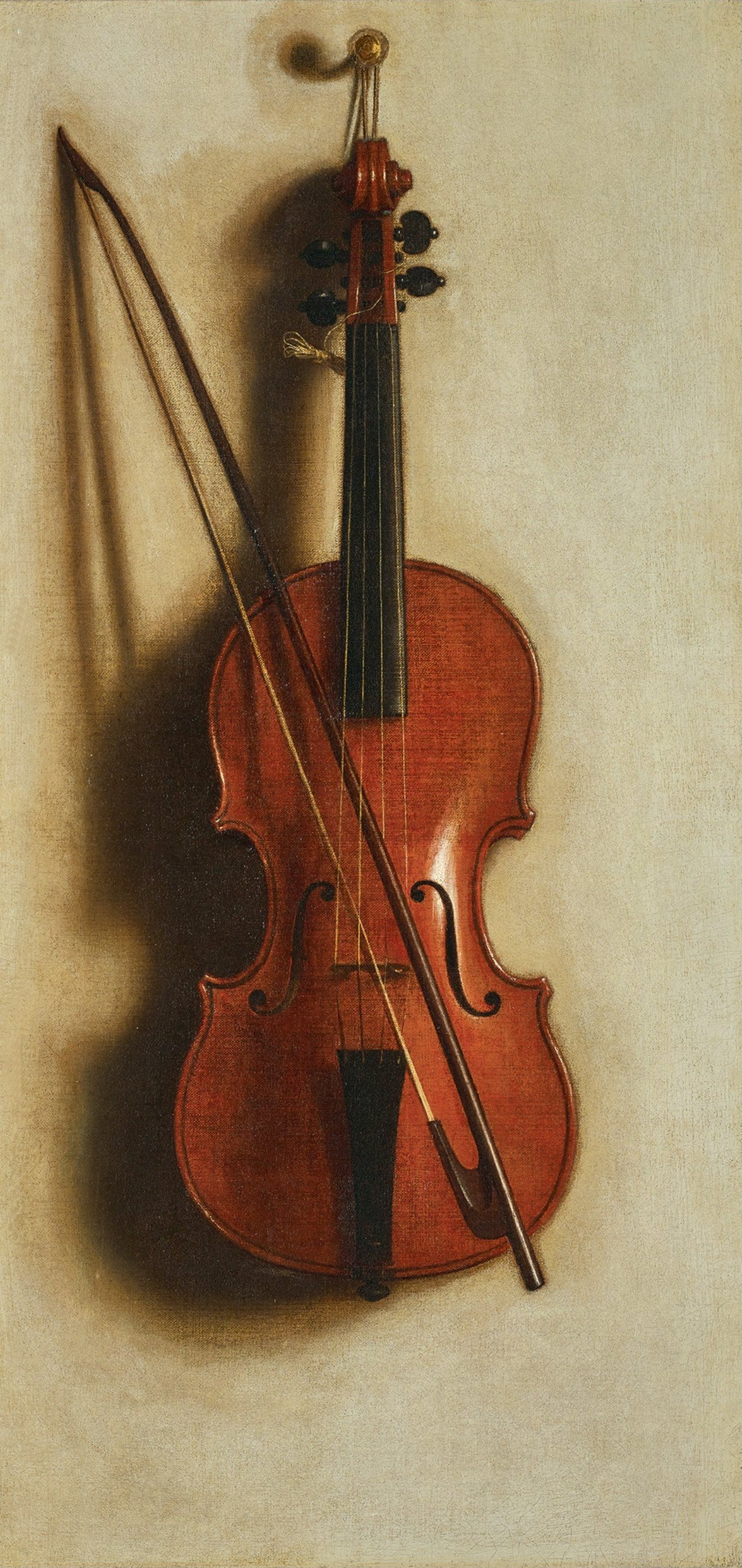 Portrait of a Violin by Jan van der Vaart, oil on canvas, 31 7/8 x 15 7/8 in.; 81 x 40.3 cm.